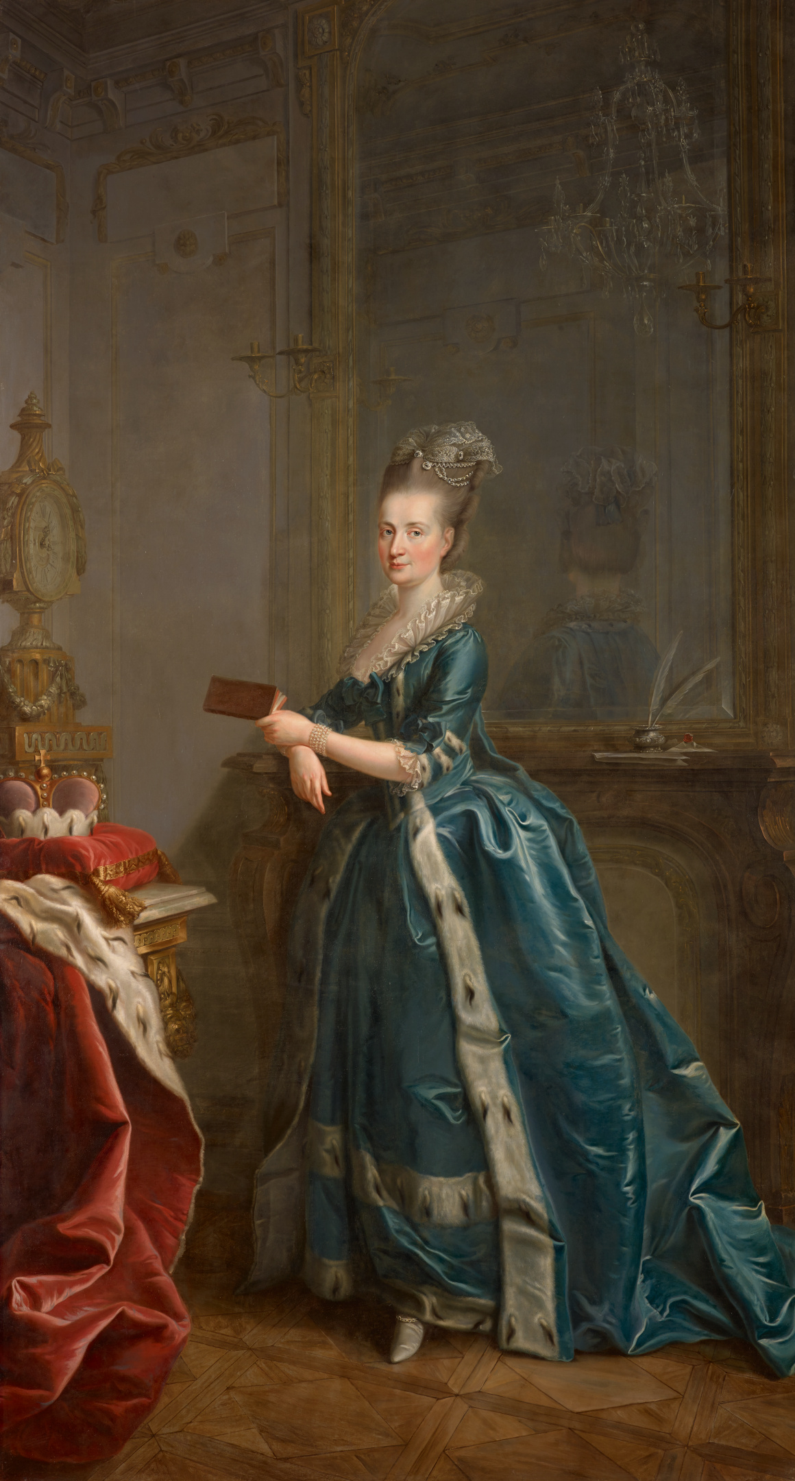 Portrait of Princess Maria Leopoldine von Liechtenstein, née Countess von Sternberg (1733-1809)